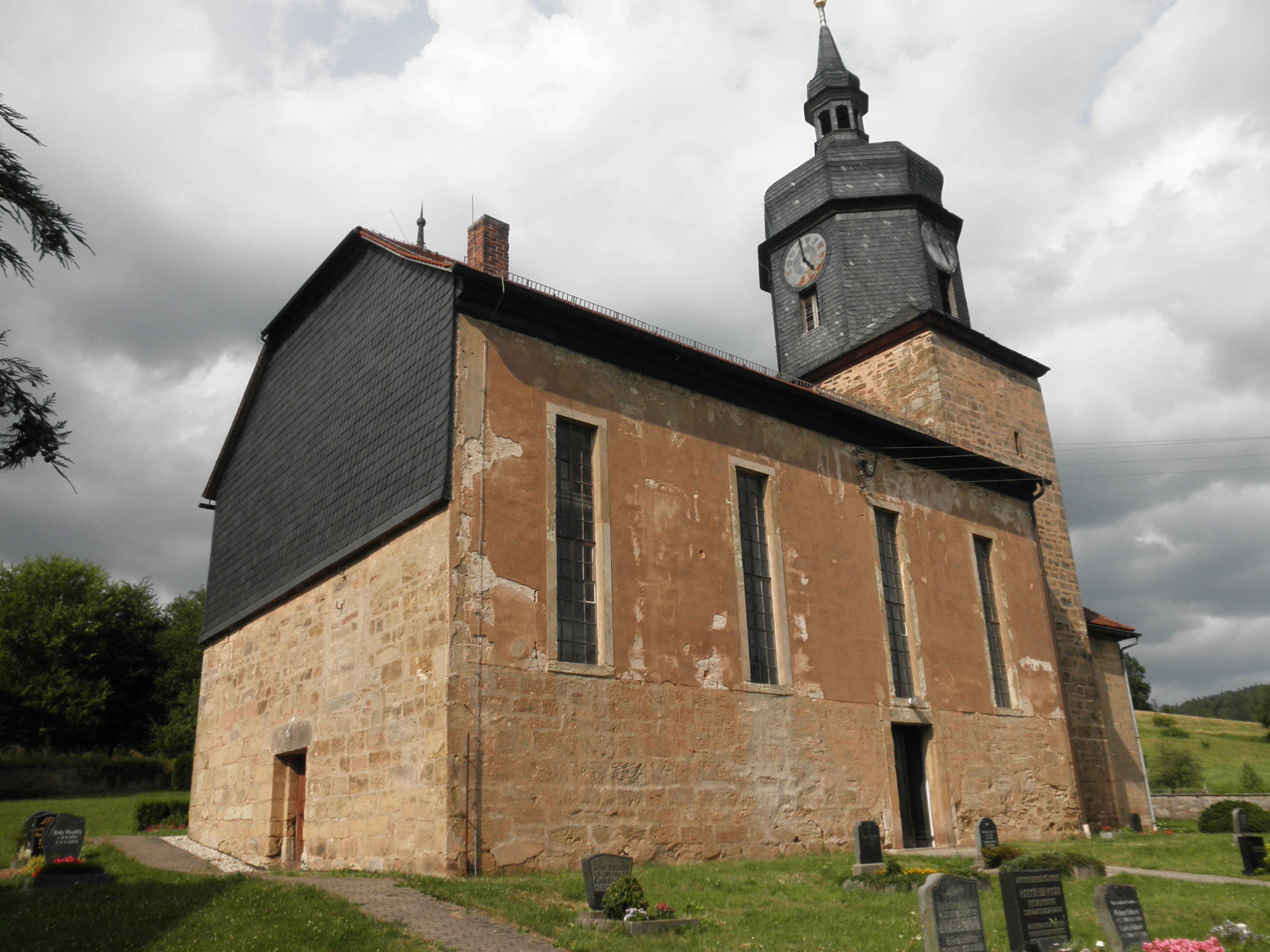 Church in Lippersdorf in Thuringia